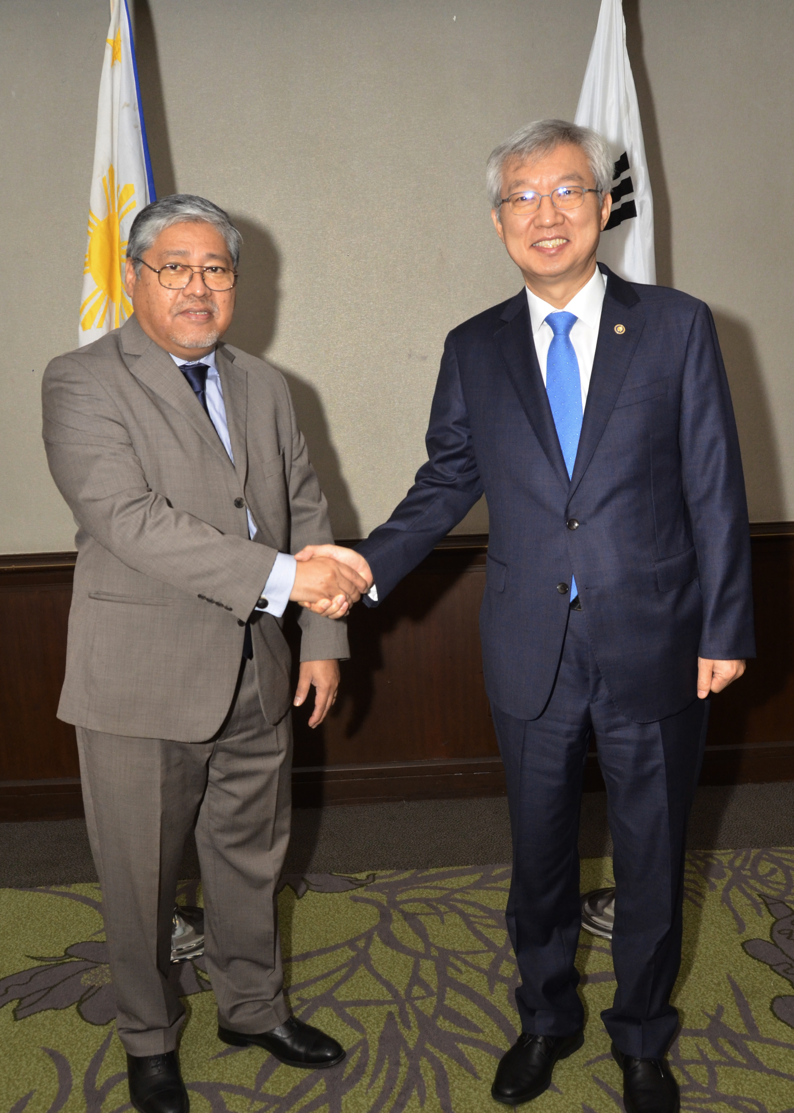 $Foreign Affairs Undersecretary for Policy Enrique A. Manalo and Vice Foreign Minister Lee Tae-ho